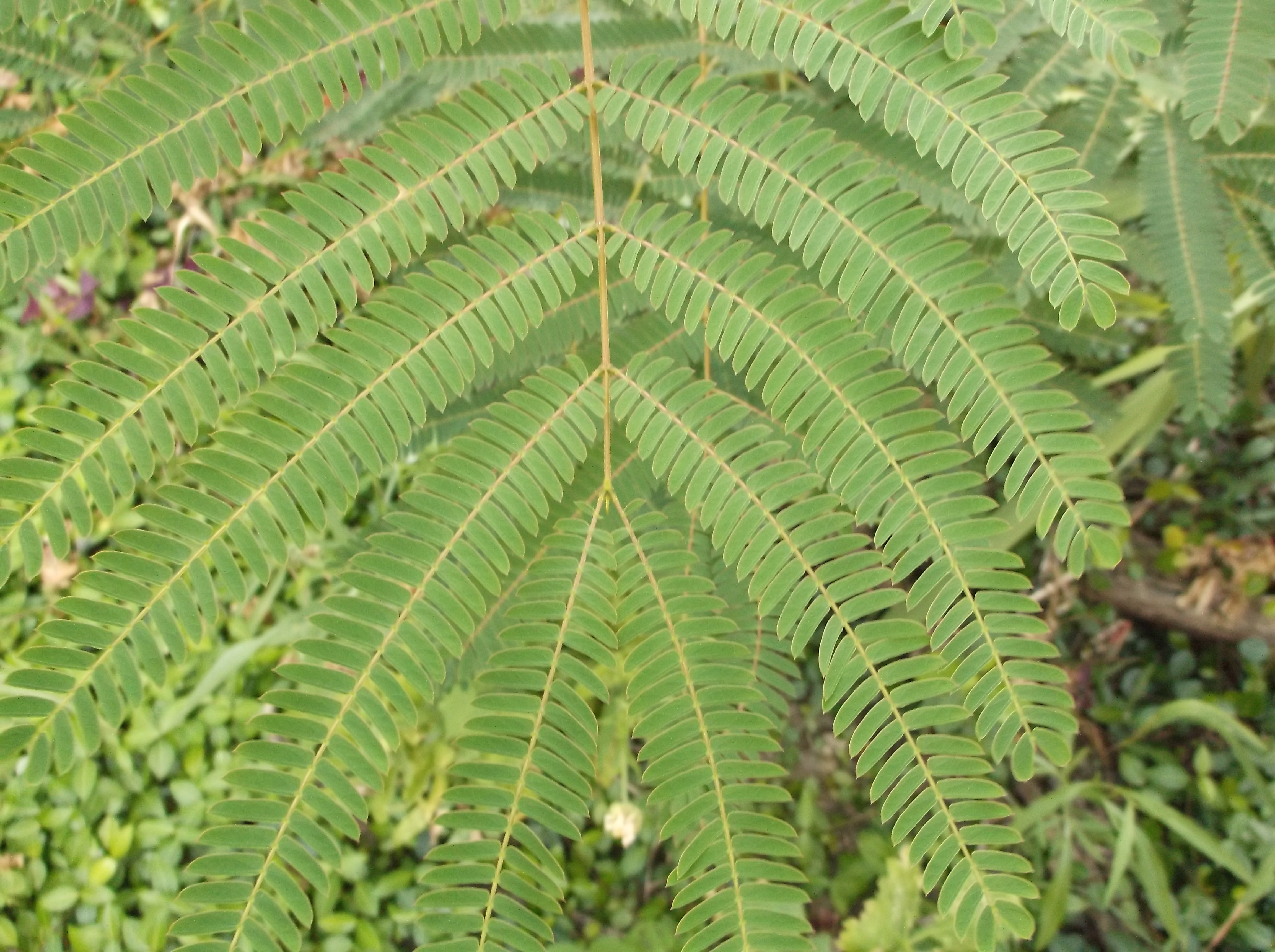 Mimosa Tree leaf, showing bipinnate structure